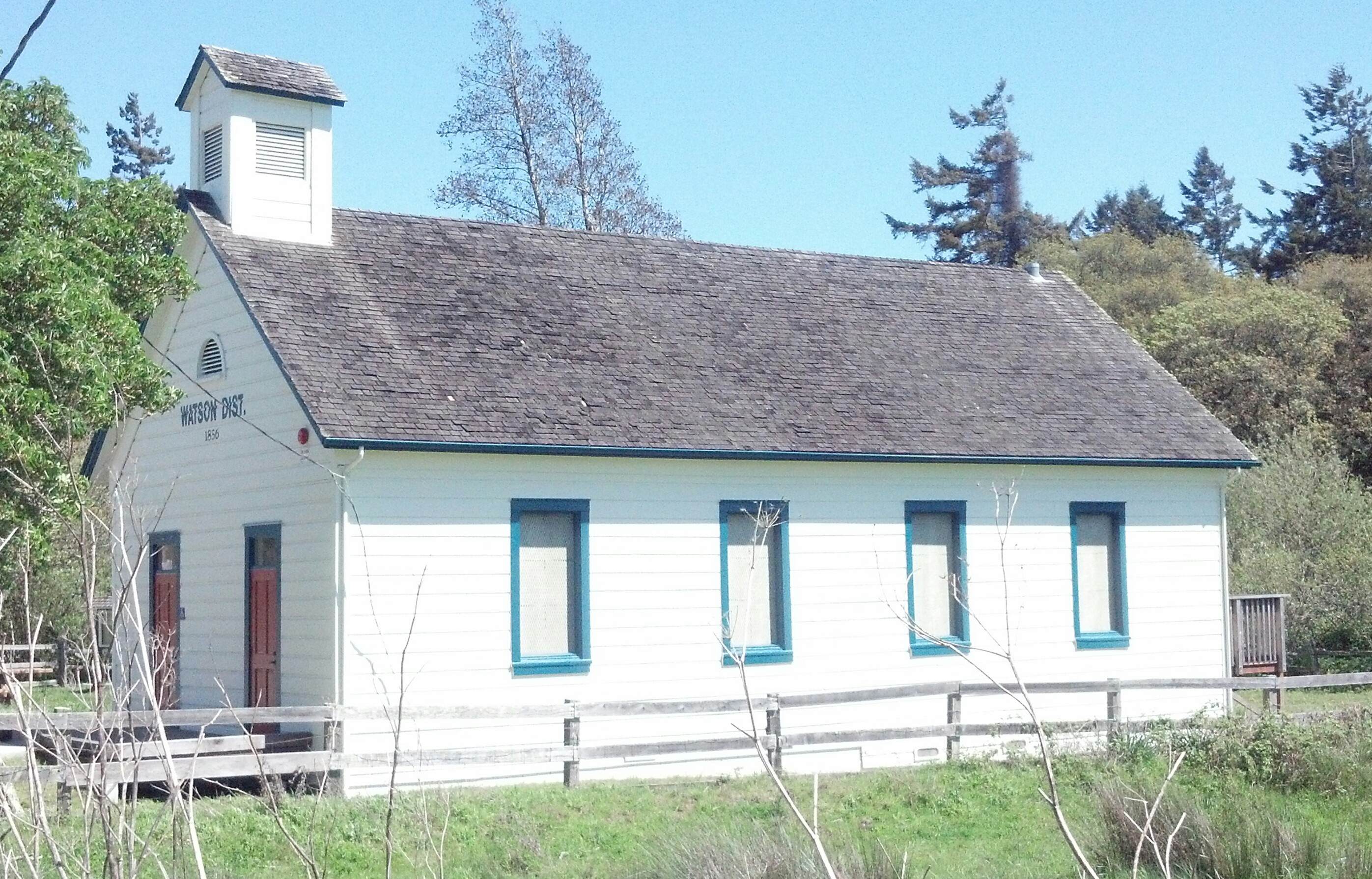 The historic Watson School in Sonoma County, California. The site also commemorates the Running Fence. Photo by Jim Heaphy.